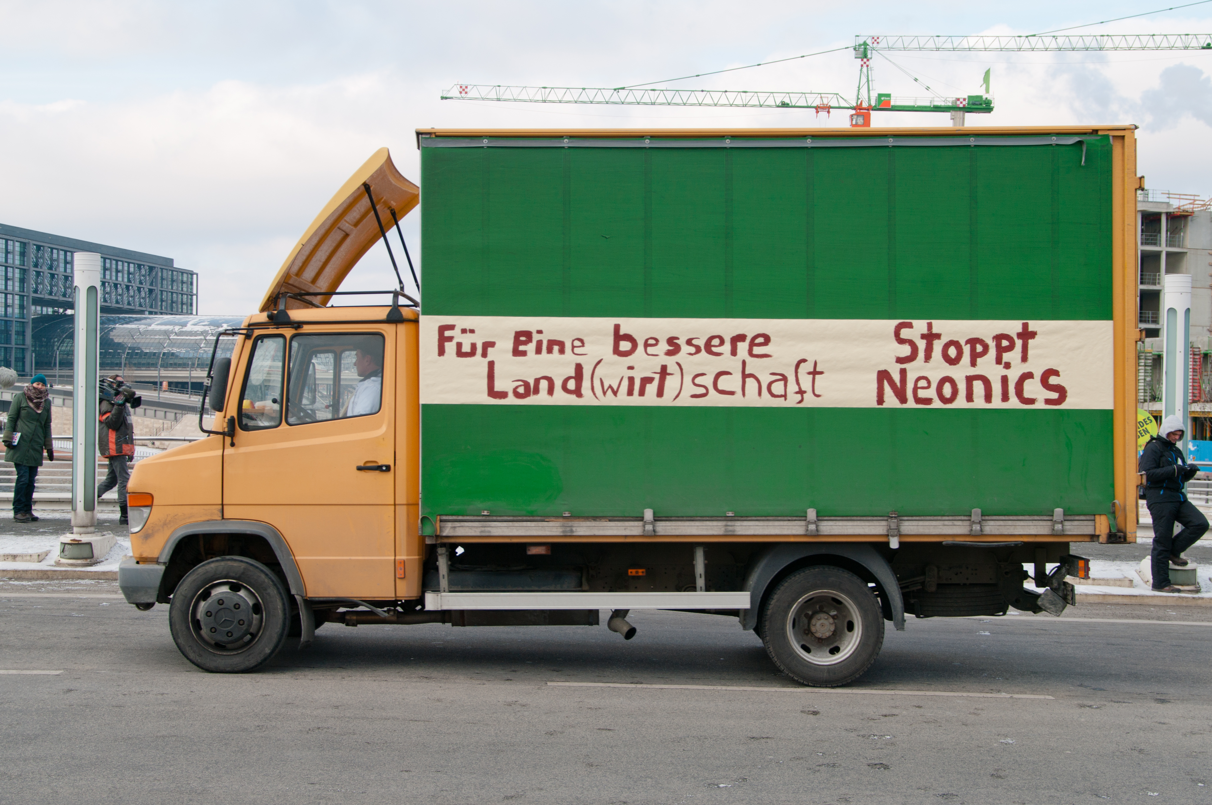 "Wir haben es satt!" (We are fed up) demonstration 2013.